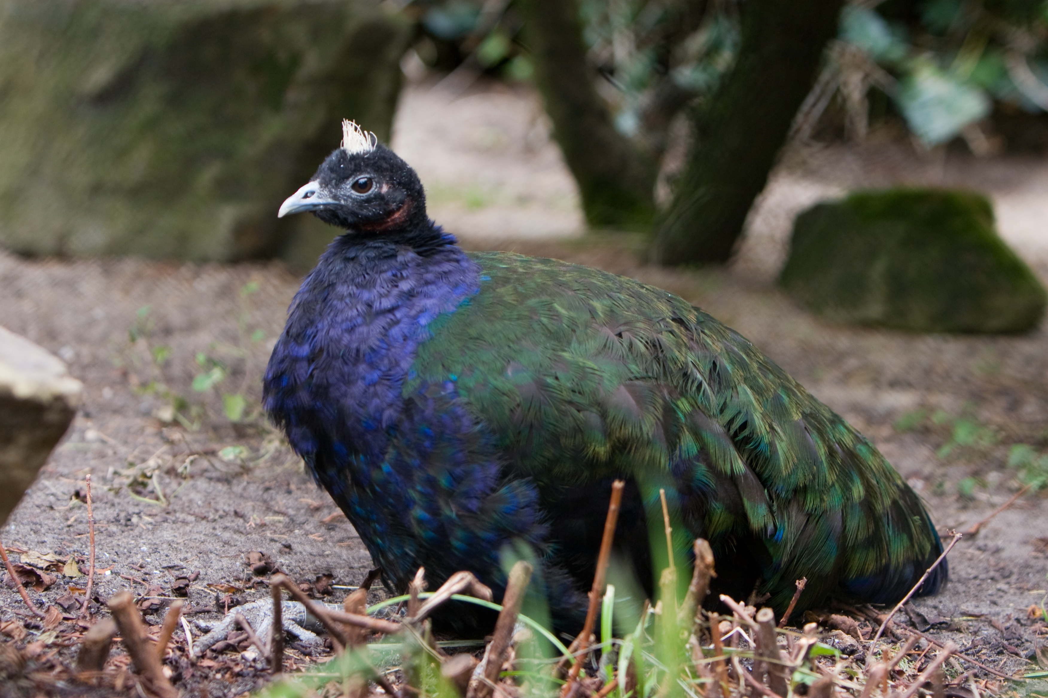 A male Congo Peafowl at Artis Zoo, Netherlands.